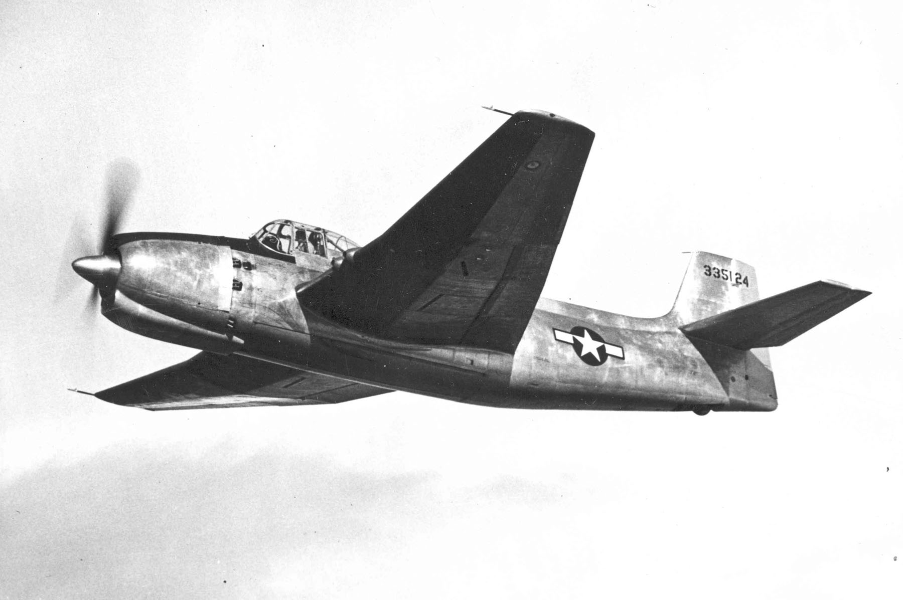 USAF Photo, public domain Original photo found on: [1]